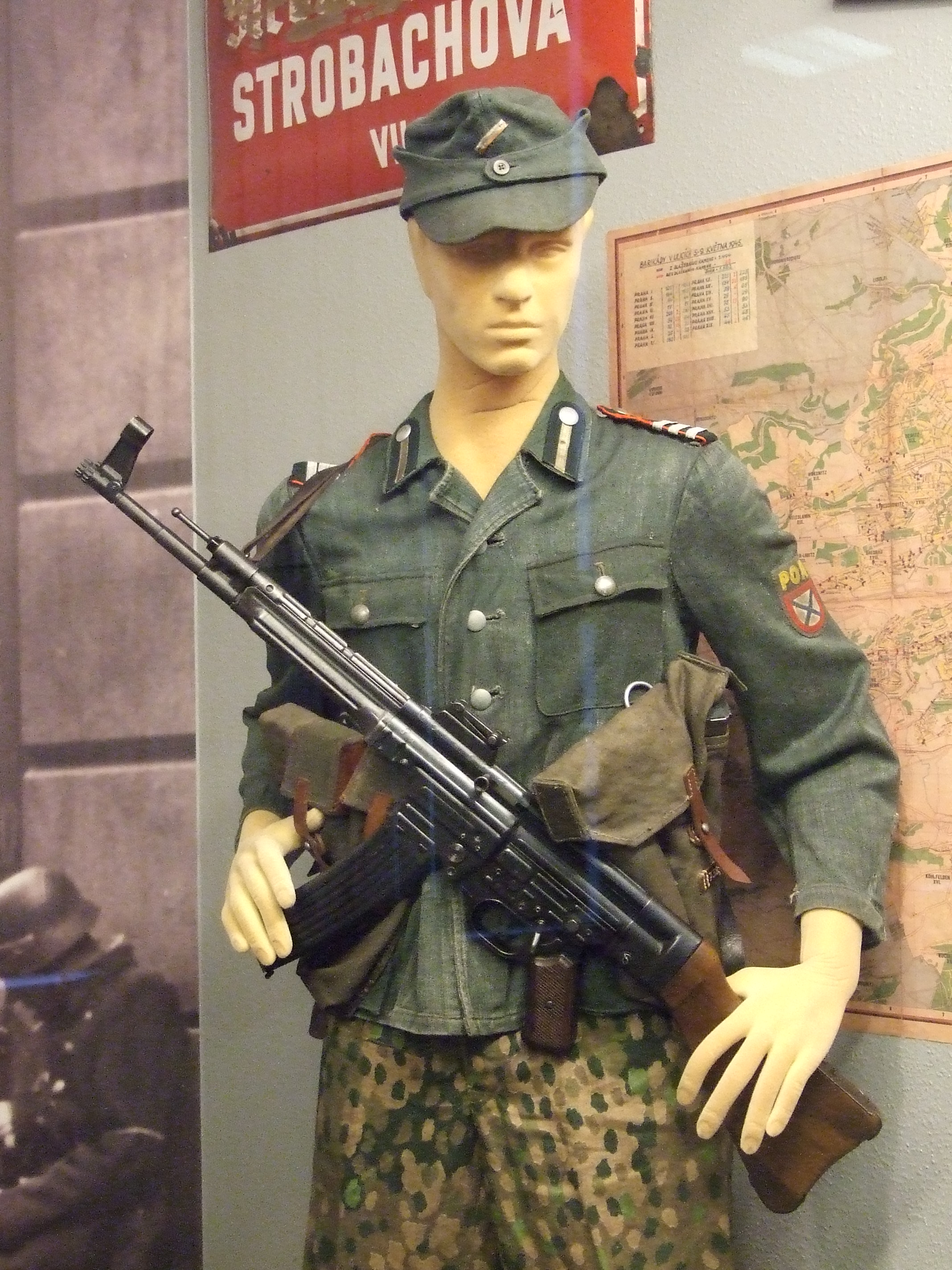 StG 44. Military museum of Prague.